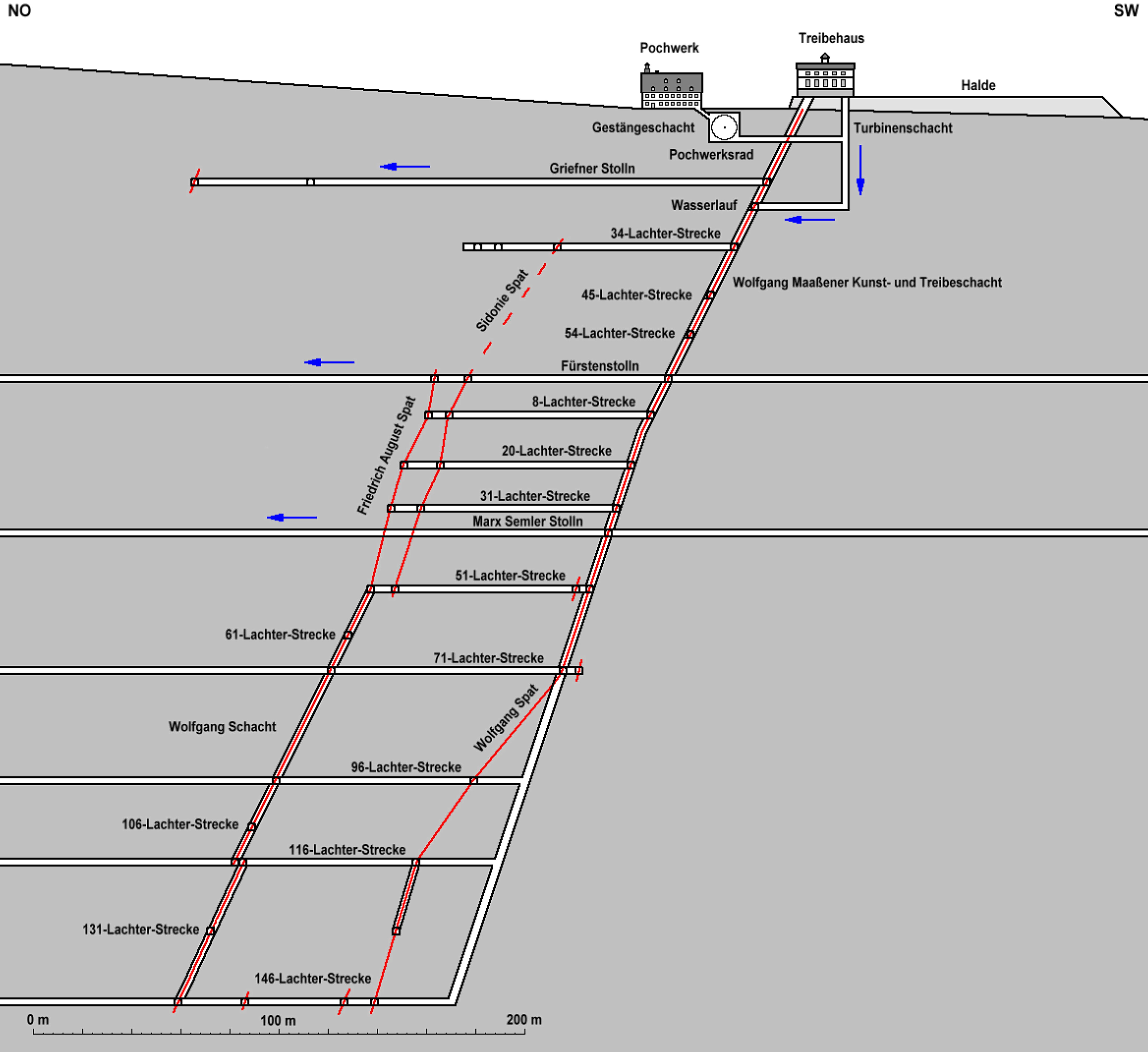 Cross section of Wolfgang Maaßen mine. Schneeberg, Saxony, Ore Mountains, Germany.